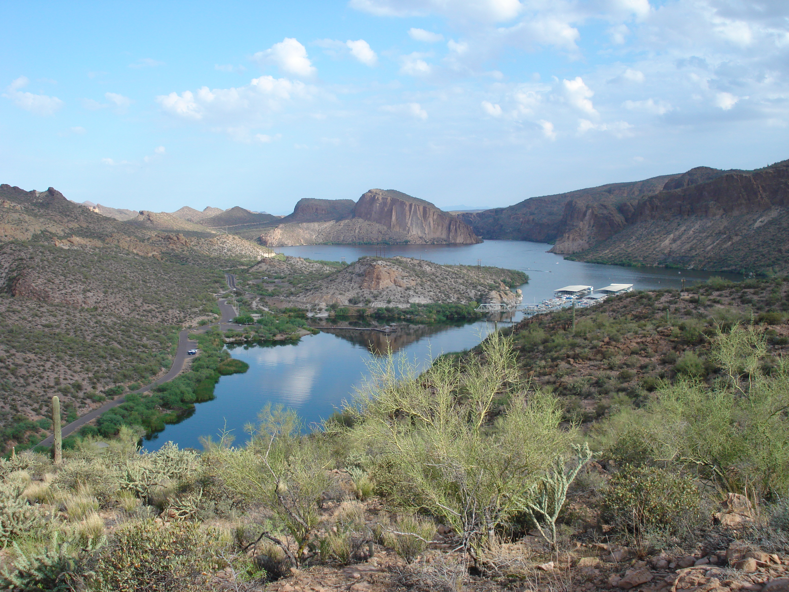 Canyon Lake as seen from the Boulder Canyon Trail in the Superstition Wilderness of Tonto National Forest (Arizona, United States)